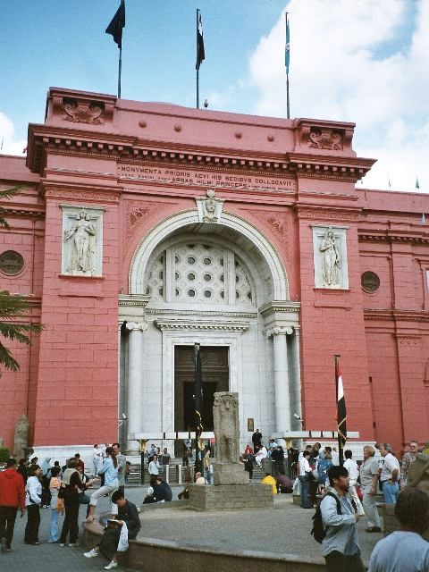 Façade of the Egyptian Museum, Cairo.